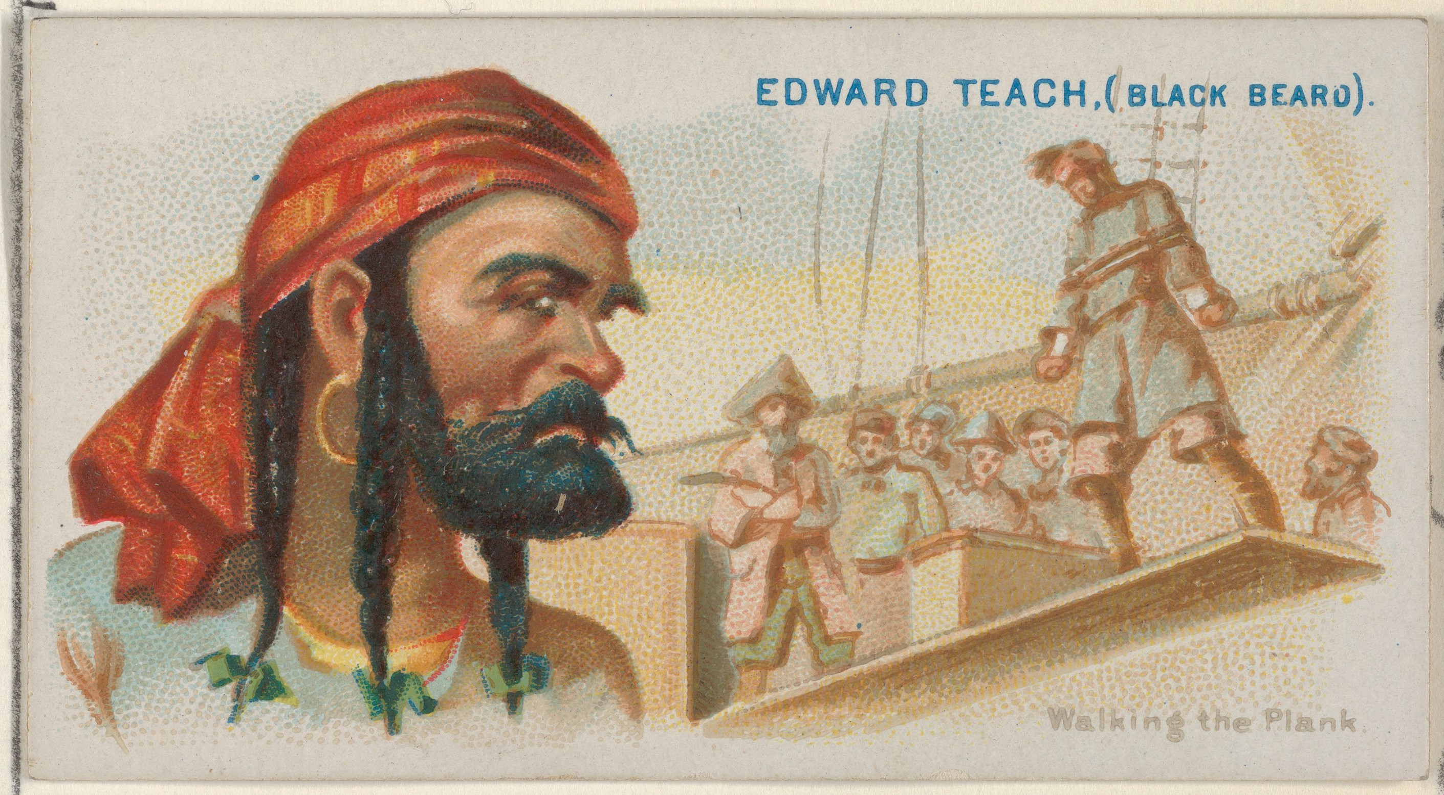 Print; Prints